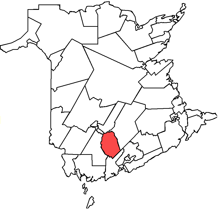 Location of the Oromocto riding in New Brunswick.